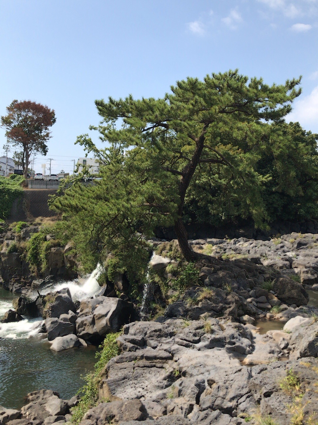 Processed with MOLDIV